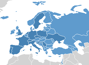 Teams of - Europe